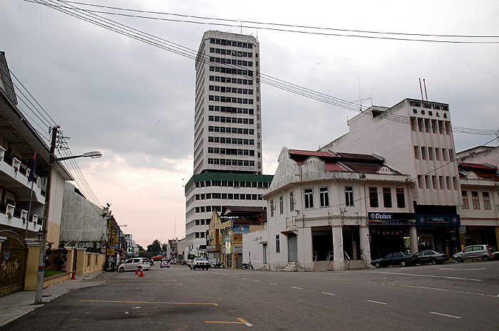 Bandar Segamat terdiri daripada dua bahagian iaitu Bandar Atas dan Bandar Bawah.